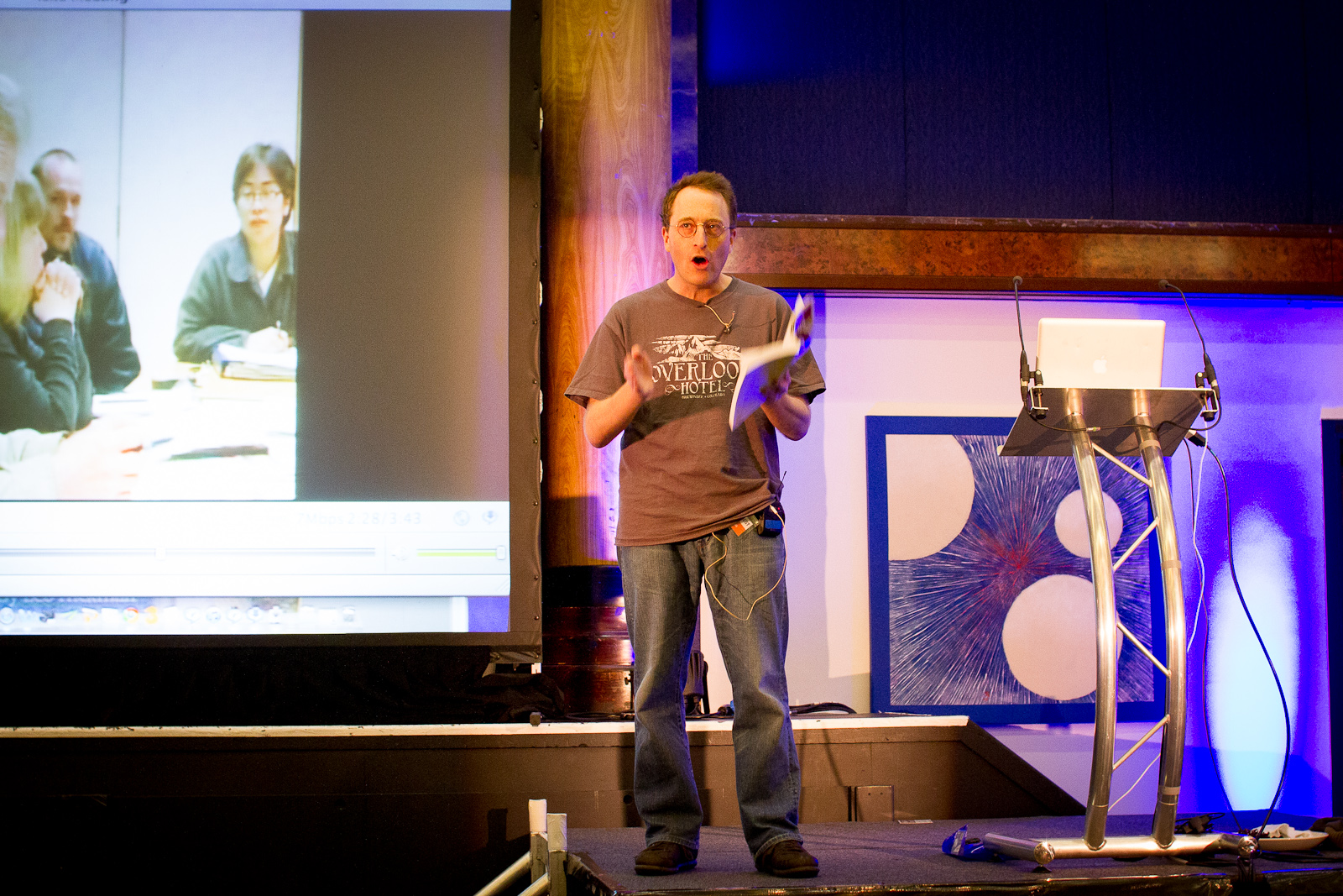 Jon Ronson talking at QED conference in Manchester in February 2011